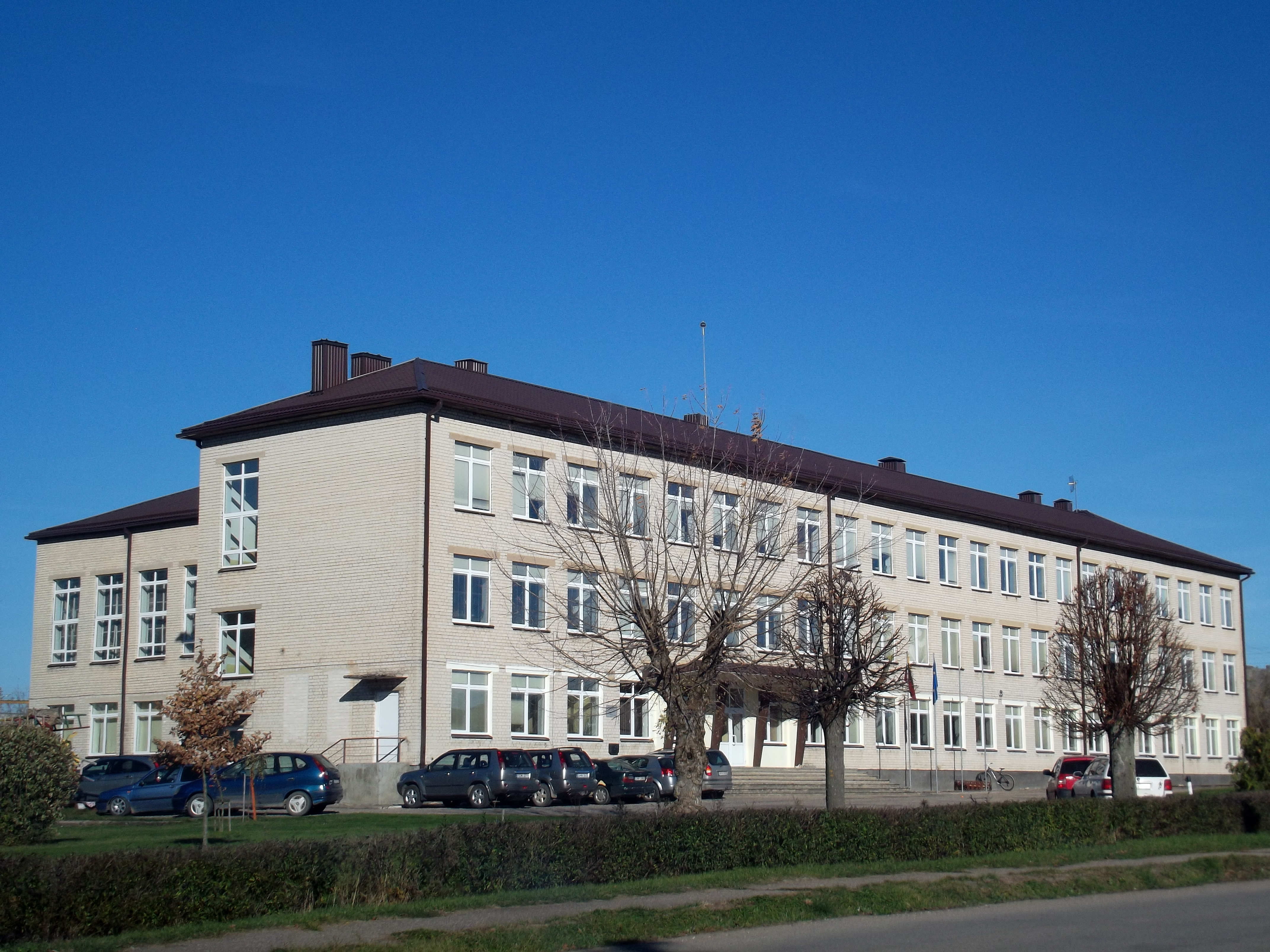 School, Stakliškės, Prienai district, Lithuania